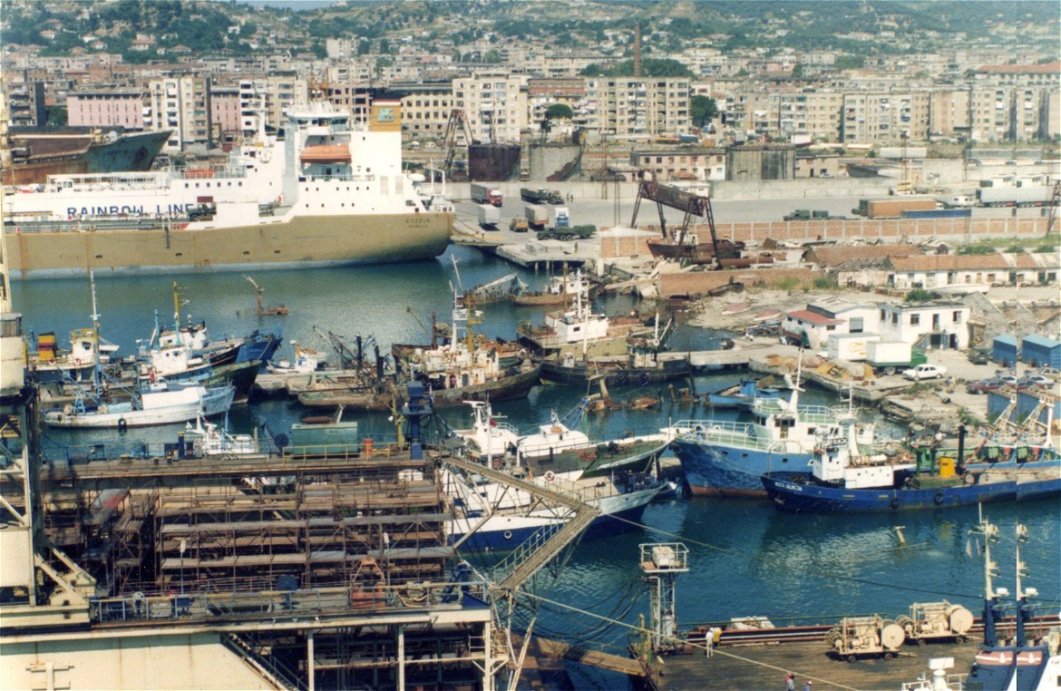 Port of Durres (Albania).